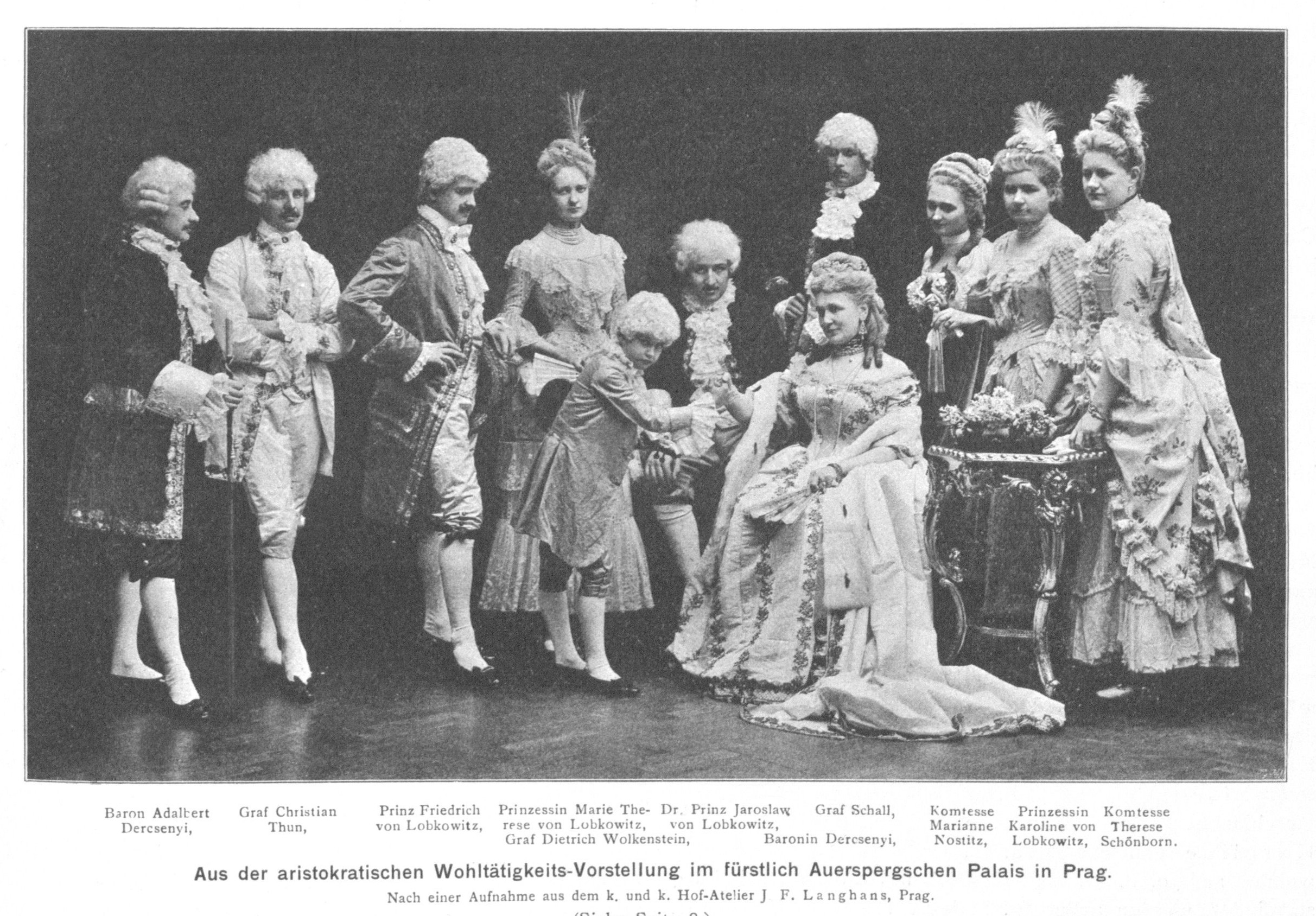 Members of noble families (Adalbert Dercsenyi, Christian Thun, Friedrich von Lobkowitz, Marie Therese von Lobkowitz, Dietrich Wolkenstein, Jaroslaw von Lobkowicz, Mr. Schall, Mrs. Dercsenyi, Marianne Nostitz, Karoline von Lobkowitz and Therese Schönborn) acting in a charity theater performance at Auersperg Palace in Prague.